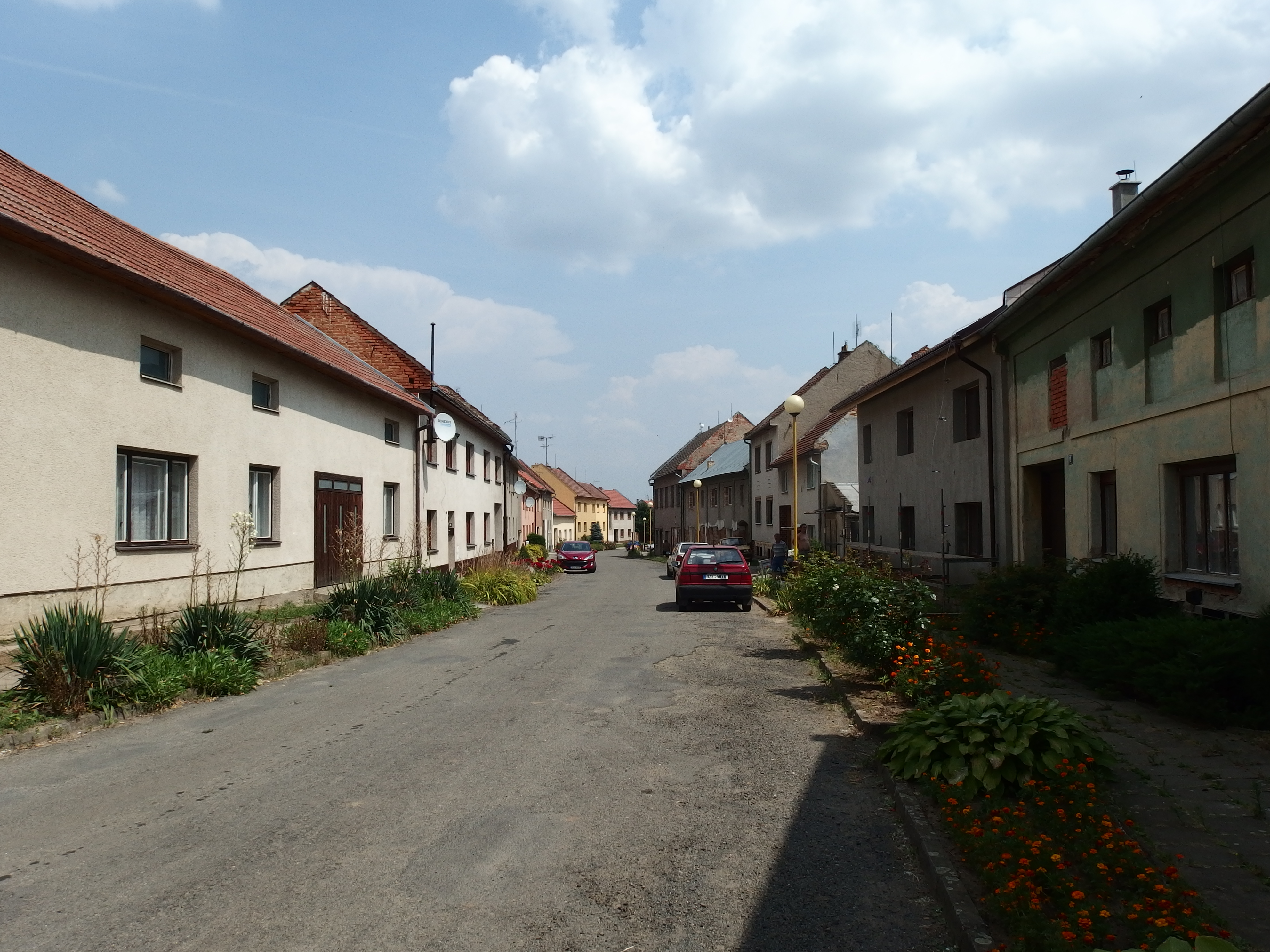 Rataje, Kroměříž District, Czech Republic, part Sobělice.